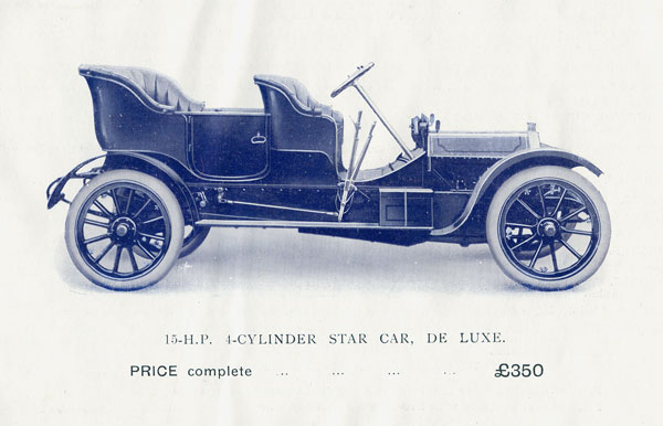 1910 15 H.P. Star car deluxe Star Car made by Wolverhampton manufacturer Star Engineering Co. Ltd.